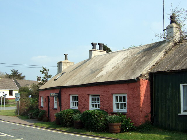 Trefeigan/Trevigan Cottage This labourer's cottage was probably one of the original dwellings here and remains largely unaltered. It has for many years been the studio and gallery of the renowned local artist John Knapp Fisher whose work mainly depicts the Pembrokeshire countryside.